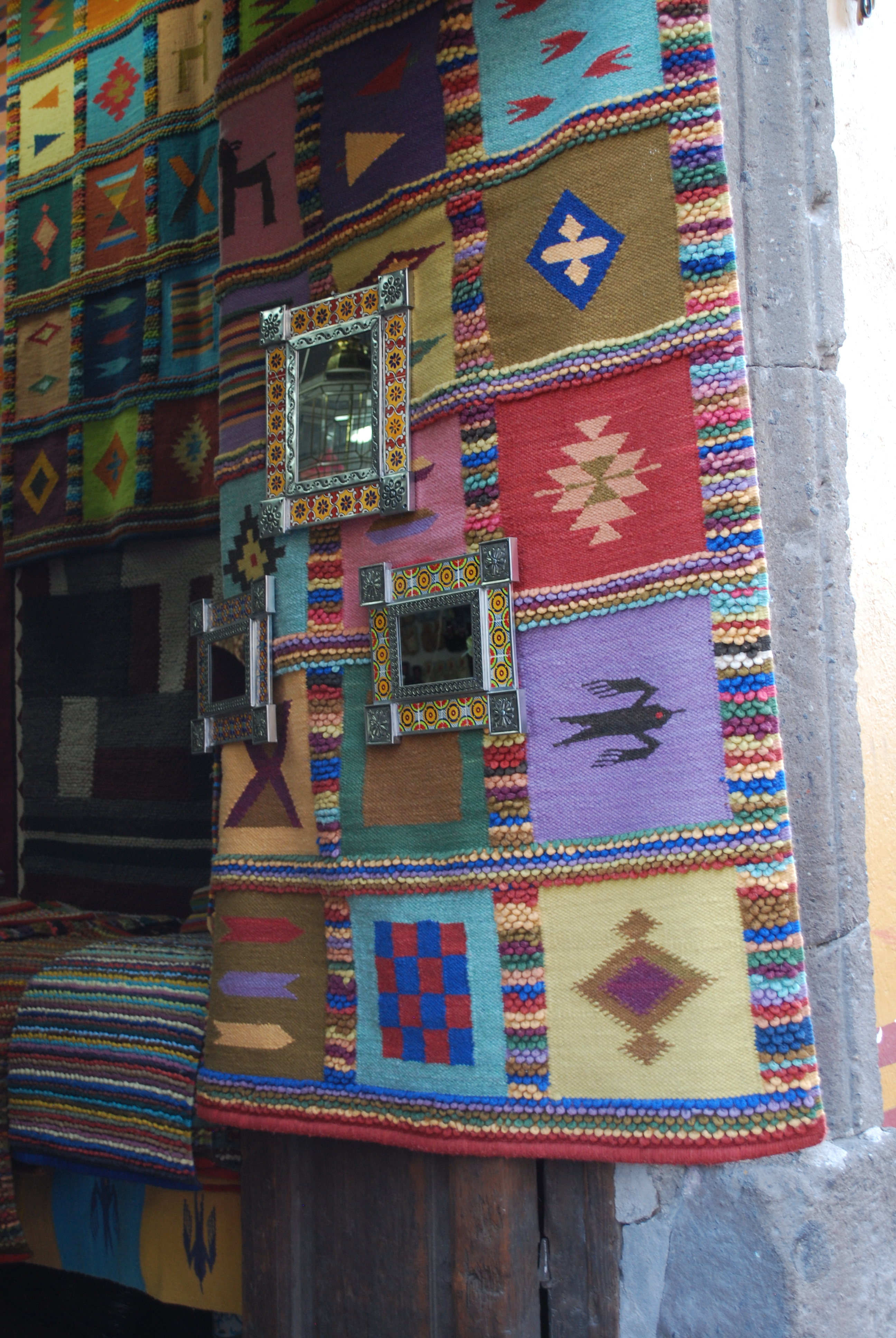 Entrance to a crafts store with rug and mirrors on display. In San Miguel de Allende, Guanajuato, Mexico